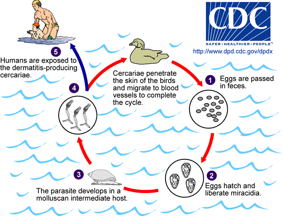 Typically, hosts of avian schistosomes are migratory water birds, including shorebirds, ducks, and geese. Adult worms are found in the blood vessels and produce eggs that are swallowed and passed in the feces . On exposure to water, the eggs hatch and liberate a ciliated miracidium that infects a suitable molluscan intermediate host . The parasite develops in the intermediate host, usually a certain species of snail , to produce free-swimming cercariae that are released under appropriate conditions and penetrate the skin of the birds to complete the cycle . Humans are inadvertent and inappropriate hosts; cercariae may penetrate the skin but do not develop further . A number of species of dermatitis-producing cercariae have been described from both freshwater and saltwater environments, and exposure to either type of cercariae will sensitize persons to both.